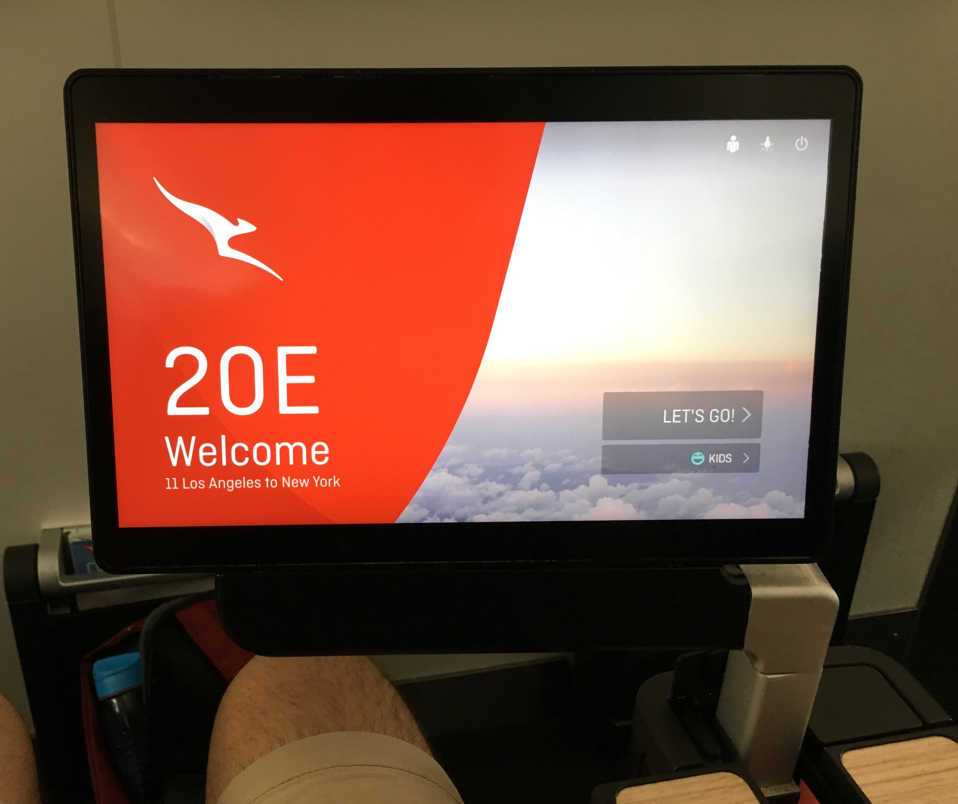 Qantas' Q IFE screen (updated version from 2018) featured on the B787-9 Dreamliner (VH-ZNA), pictured in June 2019.